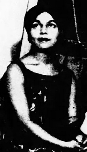 Nyota Inyoka, from a 1922 publication. A woman of color, seated,wearing a dark sleeveless dress and turban.